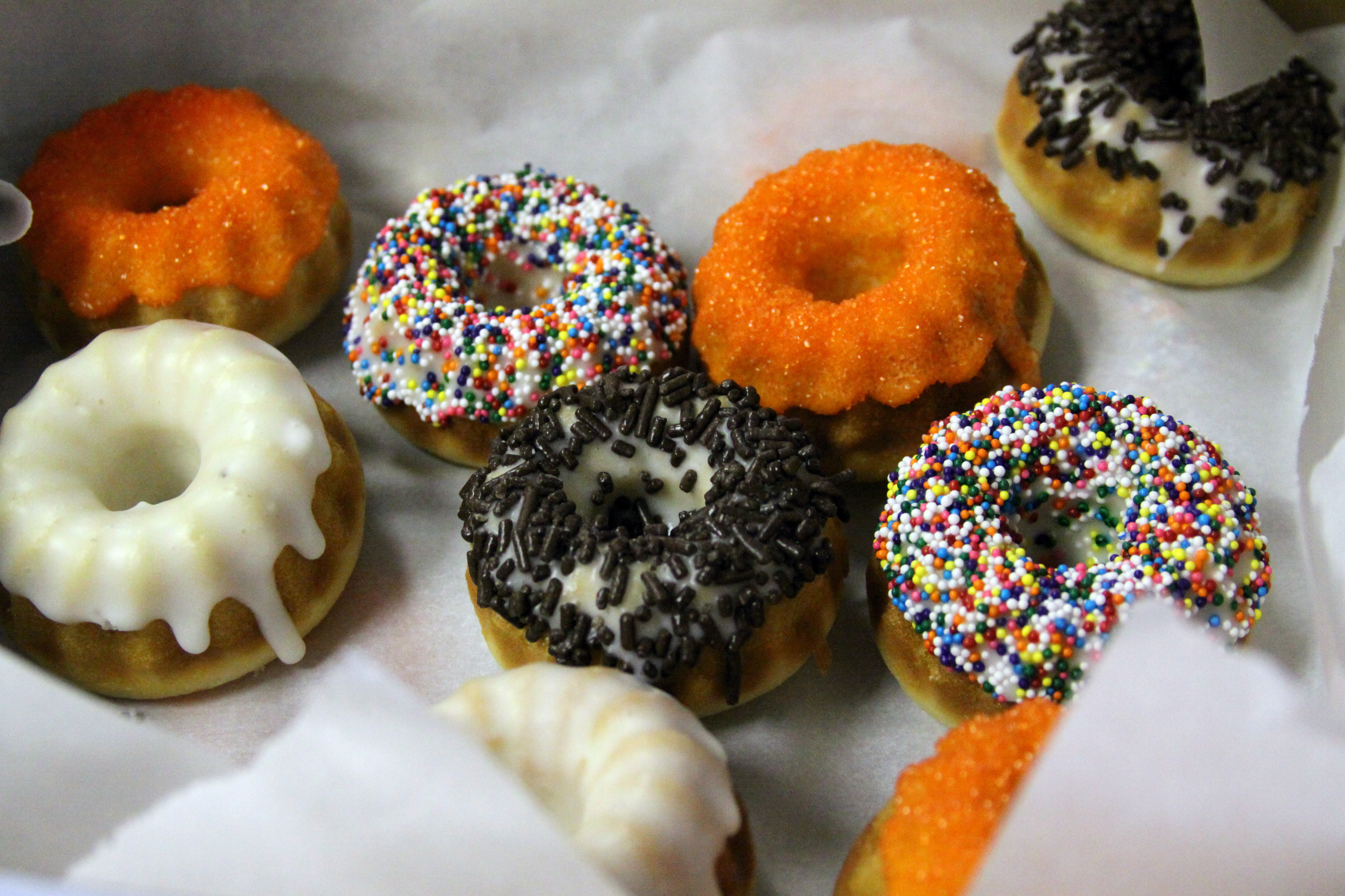 I work with women who can do amazing things in the kitchen. This time it's Rebecca.